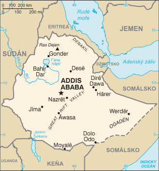 Map of Ethiopia with Czech description.